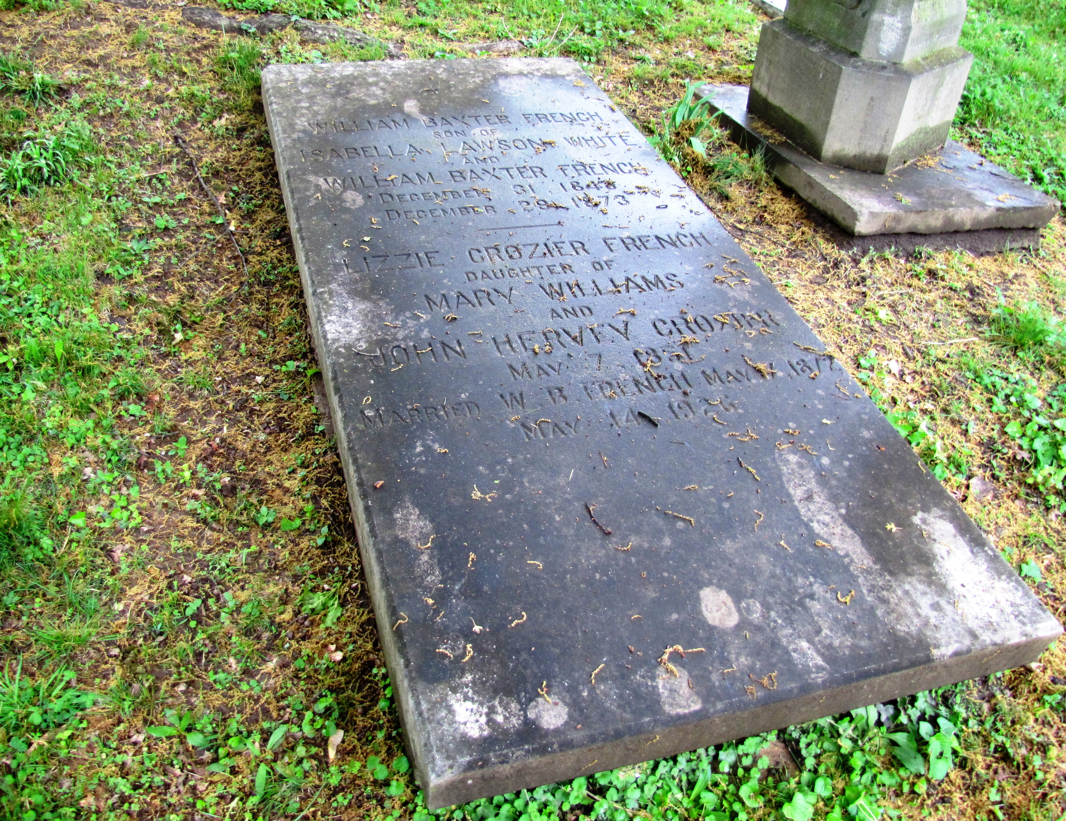 Grave of women's suffragist Lizzie Crozier French (1851–1926) and husband William Baxter French at Old Gray Cemetery in Knoxville, Tennessee, USA.